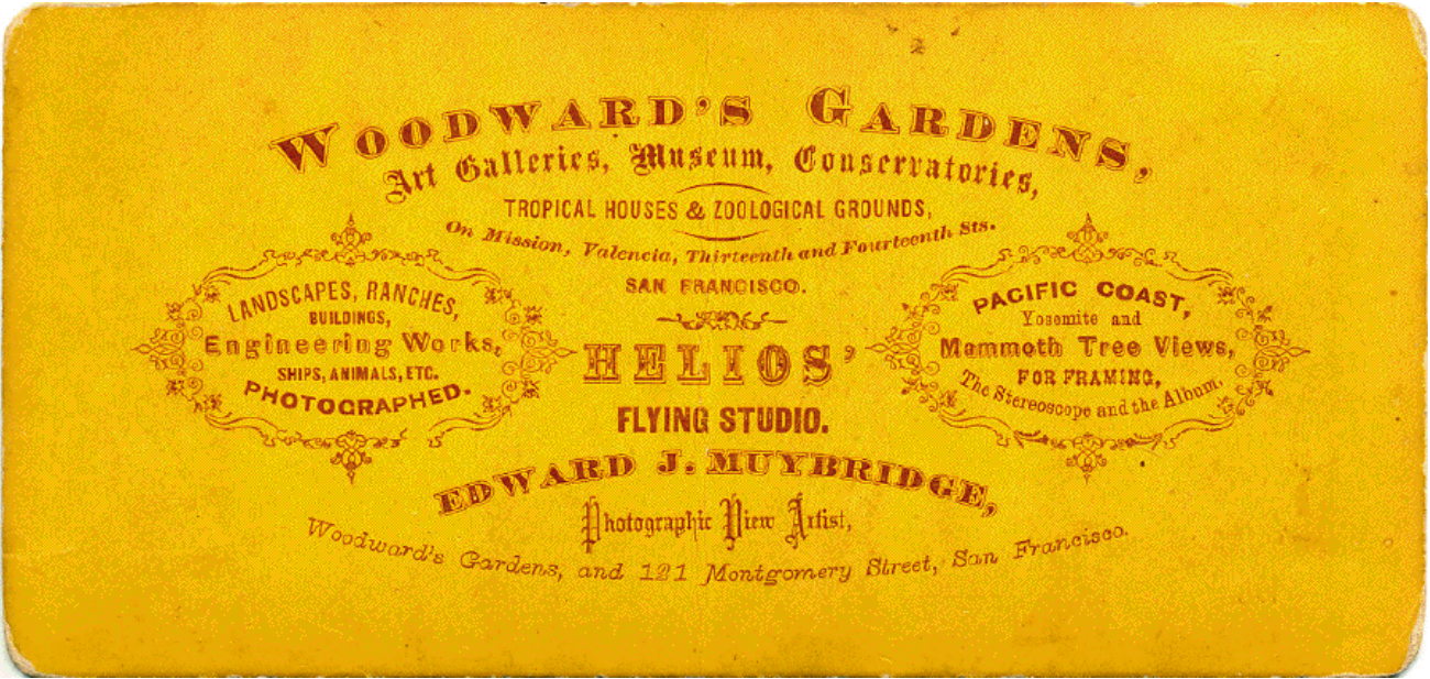 Back of stereoview by Eadweard Muybridge, Helios Flying Studio, San Francisco (1870)